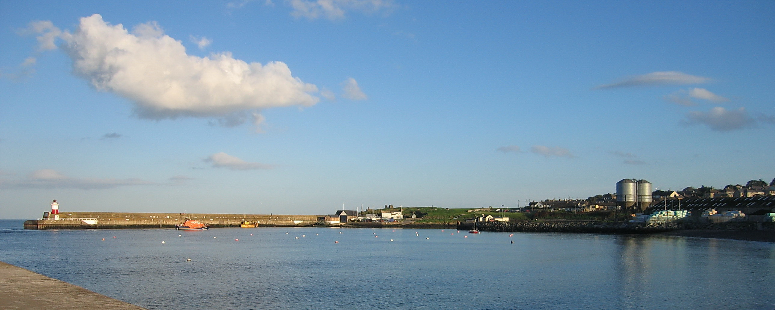 The harbour in Wicklow Town